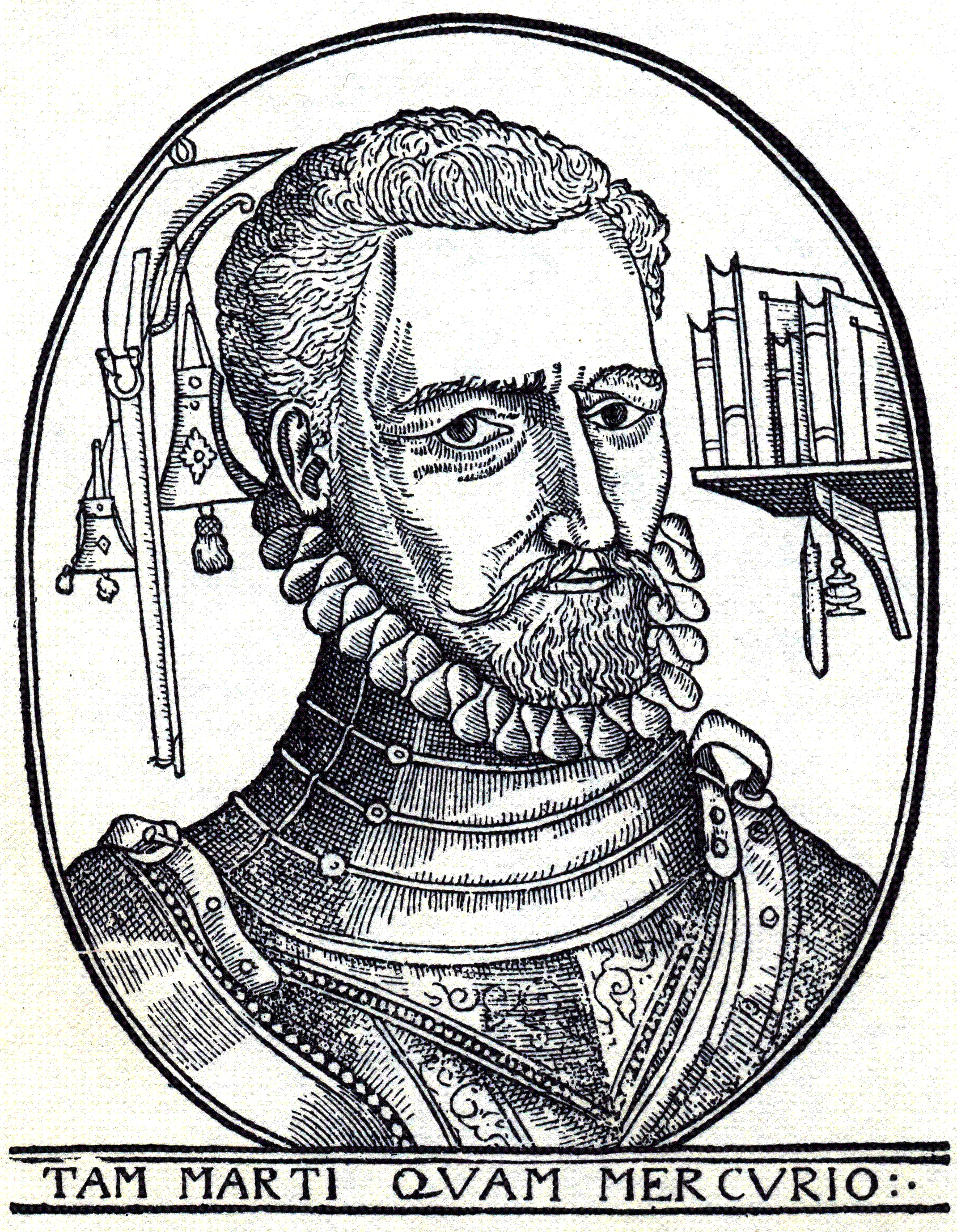 George Gascoigne, apparently the frontispiece to his 1576 edition of The Steele Glas.